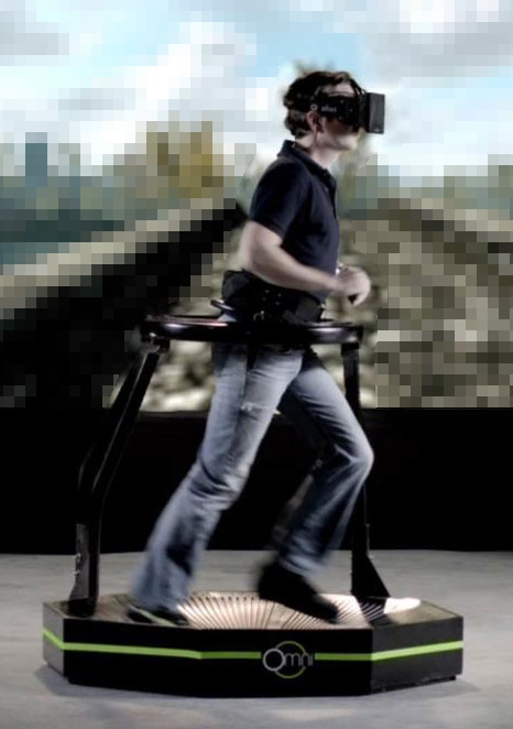 Cropped version of File:Virtuix Omni Skyrim, with logo.JPG